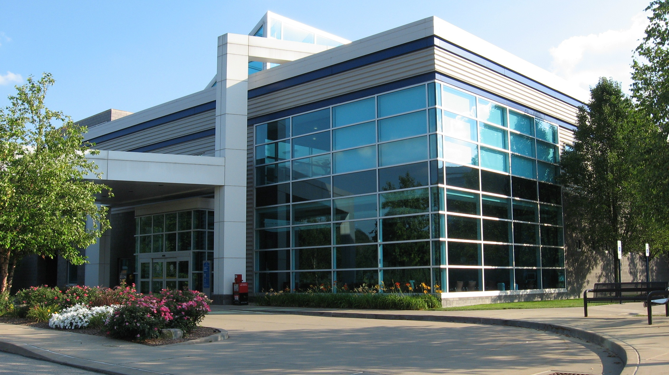 UPMC Sports Performance Complex, practice football field for the Pittsburgh Steelers and Pitt Panthers 40°25′29.3″N 79°57′35.5″W / 40.424806°N 79.959861°W